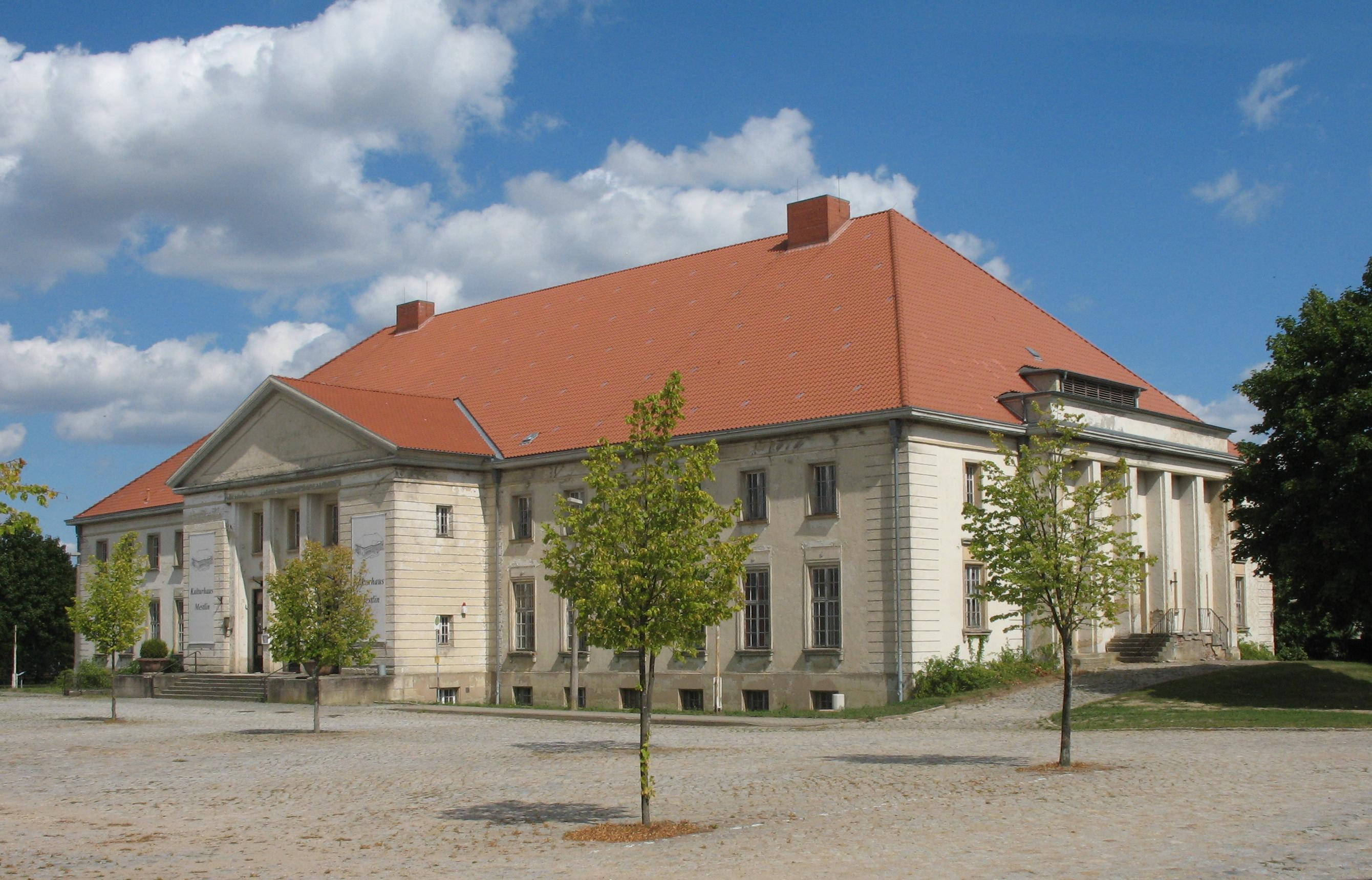 Cultural Centre in Mestlin in Mecklenburg-Western Pomerania, Germany